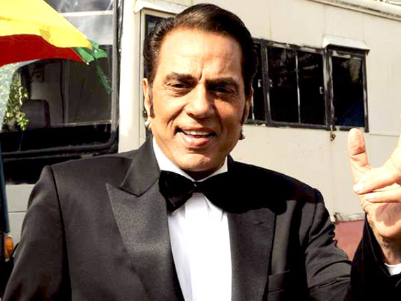 Dharmendra on the sets of India's Got Talent